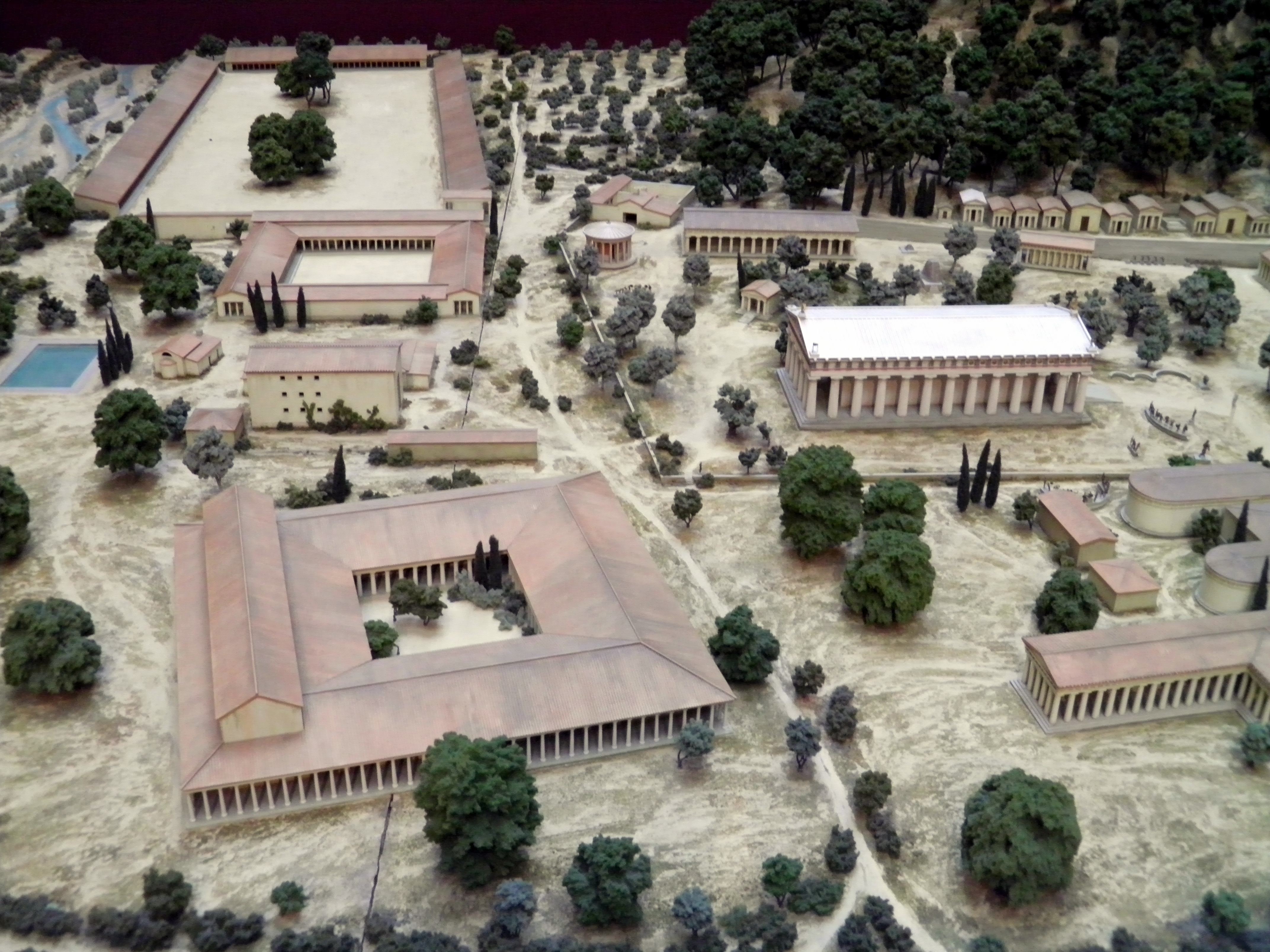 Made in 1980 This model shows the site of Olympia, home of the ancient Olympic Games, as it looked around 100 BC. On a scale of 1:200, it represents the buildings, monuments and landscape of Olympia, but there would also have been thousands of statues. The largest of these was a gold and ivory statue of the god Zeus, over 13 metres tall. Statues were also set up to honour heroes and statesmen and the vast numbers of athletes who had won at the Games. It was like an open-air Olympic hall of fame. Olympia was the oldest sanctuary of Zeus, the supreme god of Greek mythology. The Games were held in his honour, as he was believed to grant athletes their strength and skills. Visitors came to Olympia for the Games every four years since at least 776 BC. The Games lasted for over 1000 years, but finally came to an end when the site was ravaged by invasions, flooding, earthquakes and a decree outlawing pagan cults. The model was commissioned in 1980 for a major exhibition on the Olympic Games at the British Museum. It has since been displayed both in London to coincide with various Olympic Games and also in numerous locations around the world.